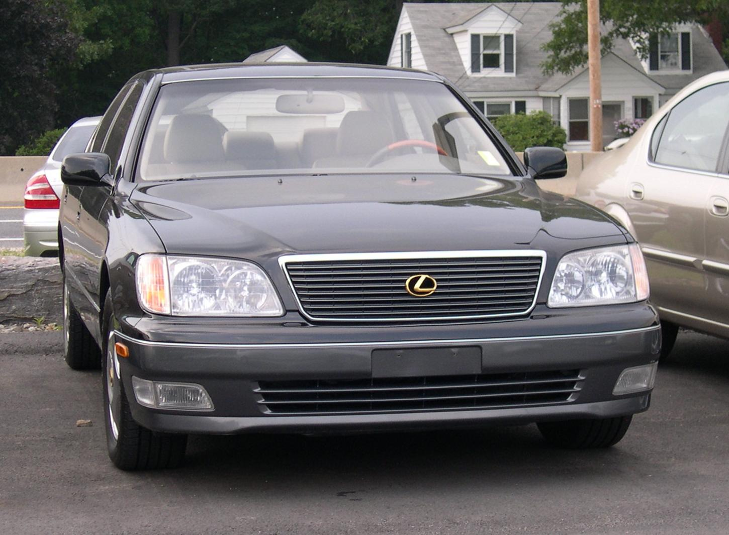 1999 Lexus LS Source: Photo by User:Sfoskett